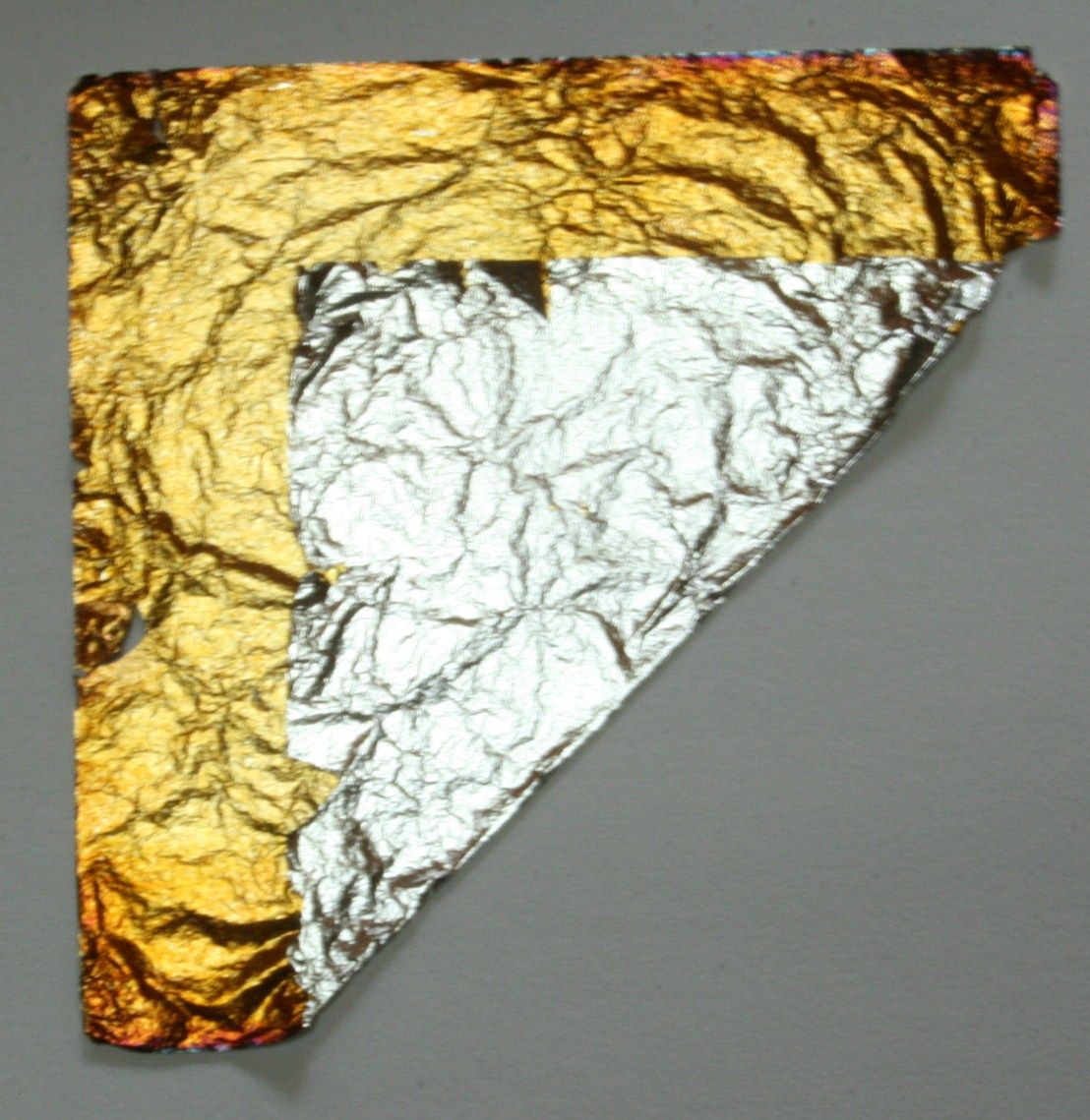 discolored silver leaf